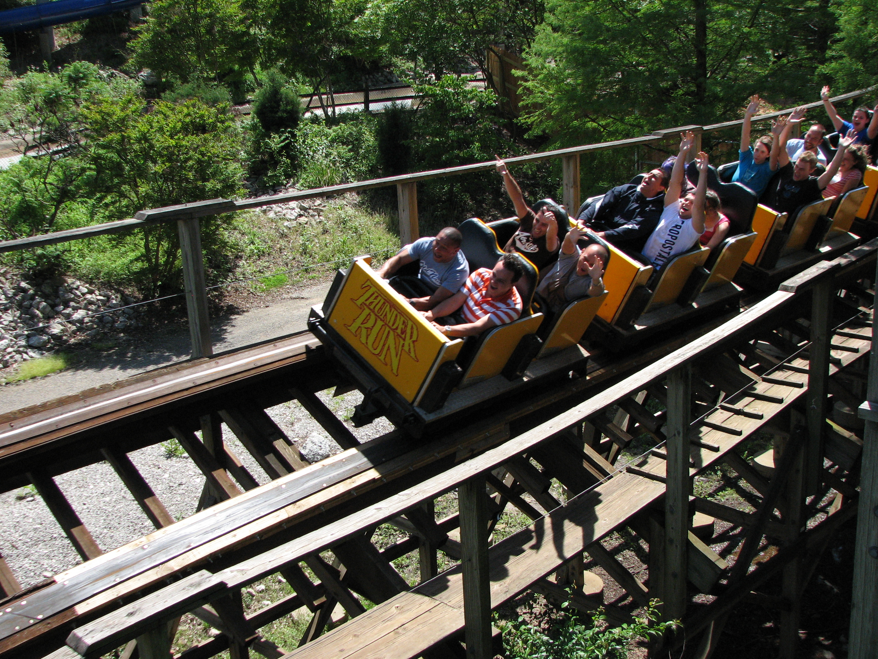 Flying by on Thunder Run